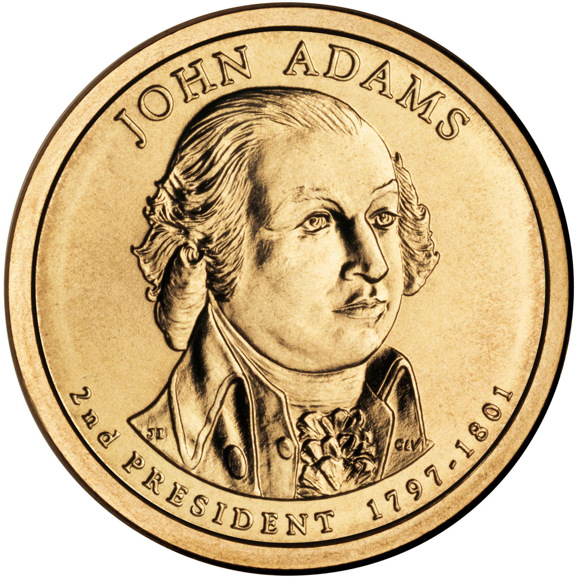 Presidential $1 Coin Program coin for John Adams. Obverse.